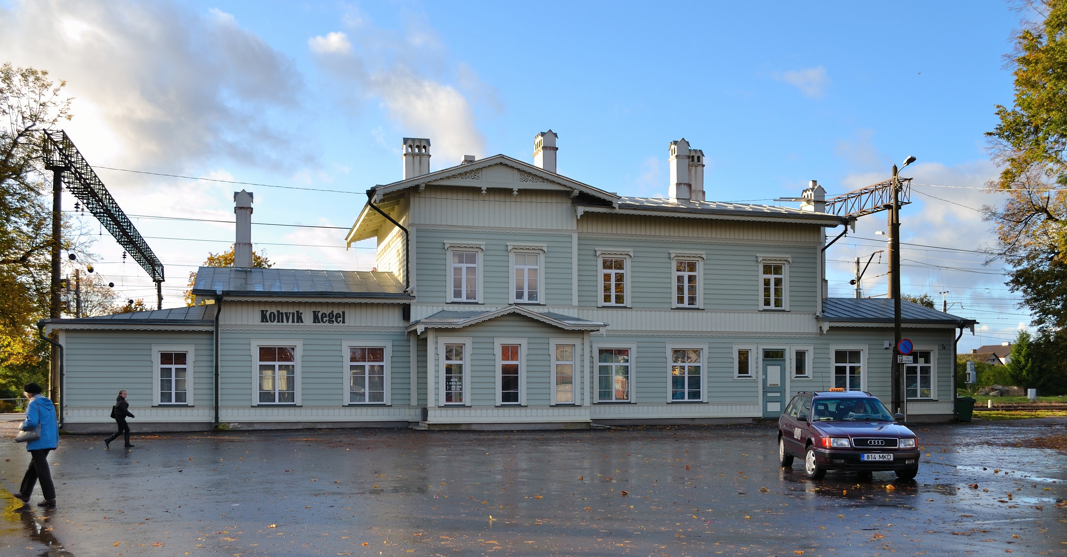 Keila station building This photograph was taken with a Nikon D3100